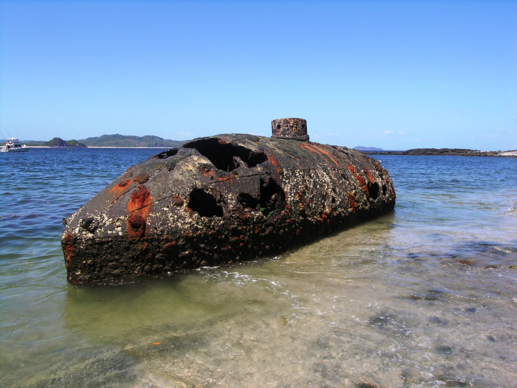 View of Sub Marine Explorer at Low Tide, 2006. (James P. Delgado)